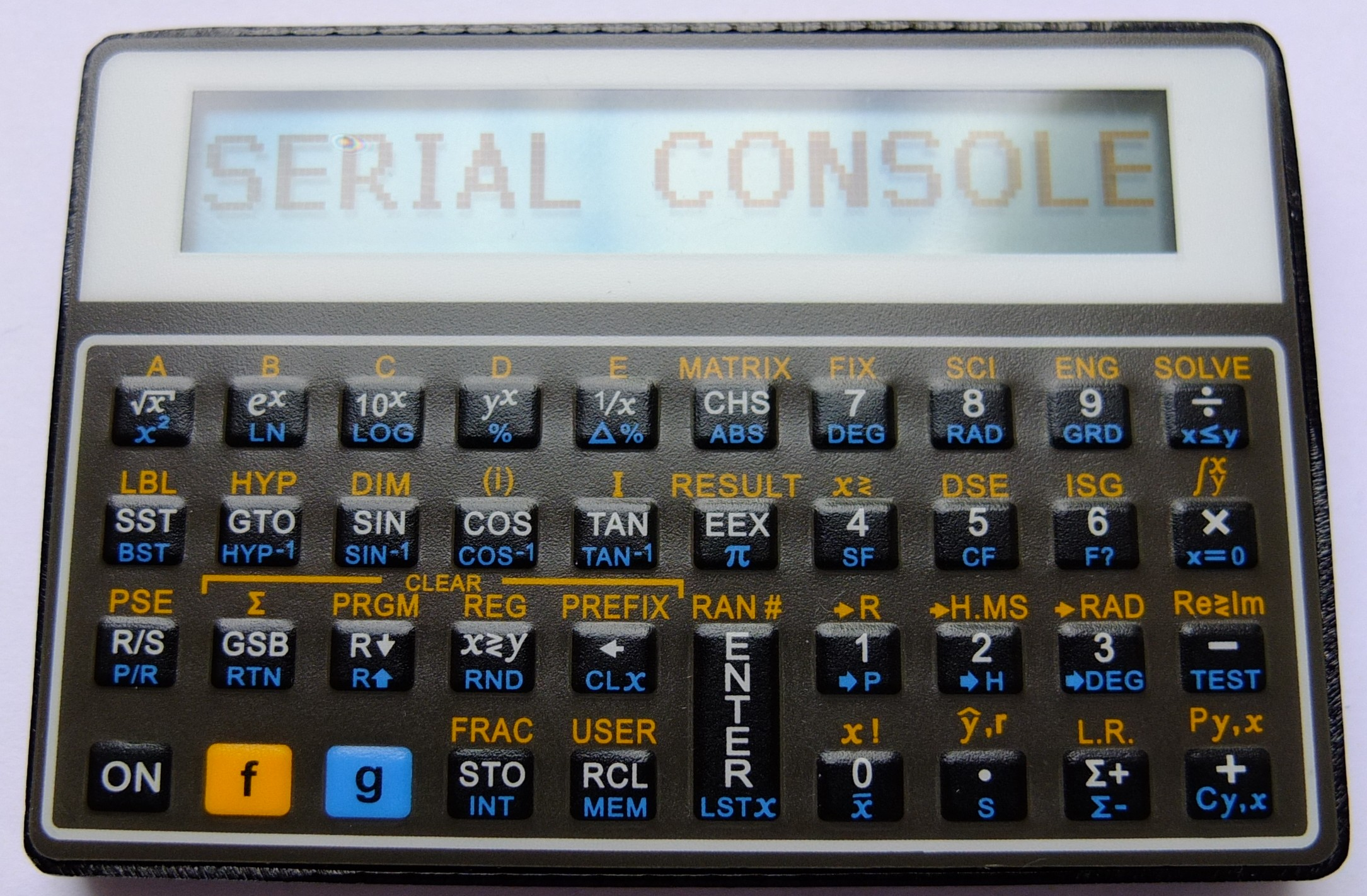 World smallest RPN and programmable calculator. Michael and David from make them.